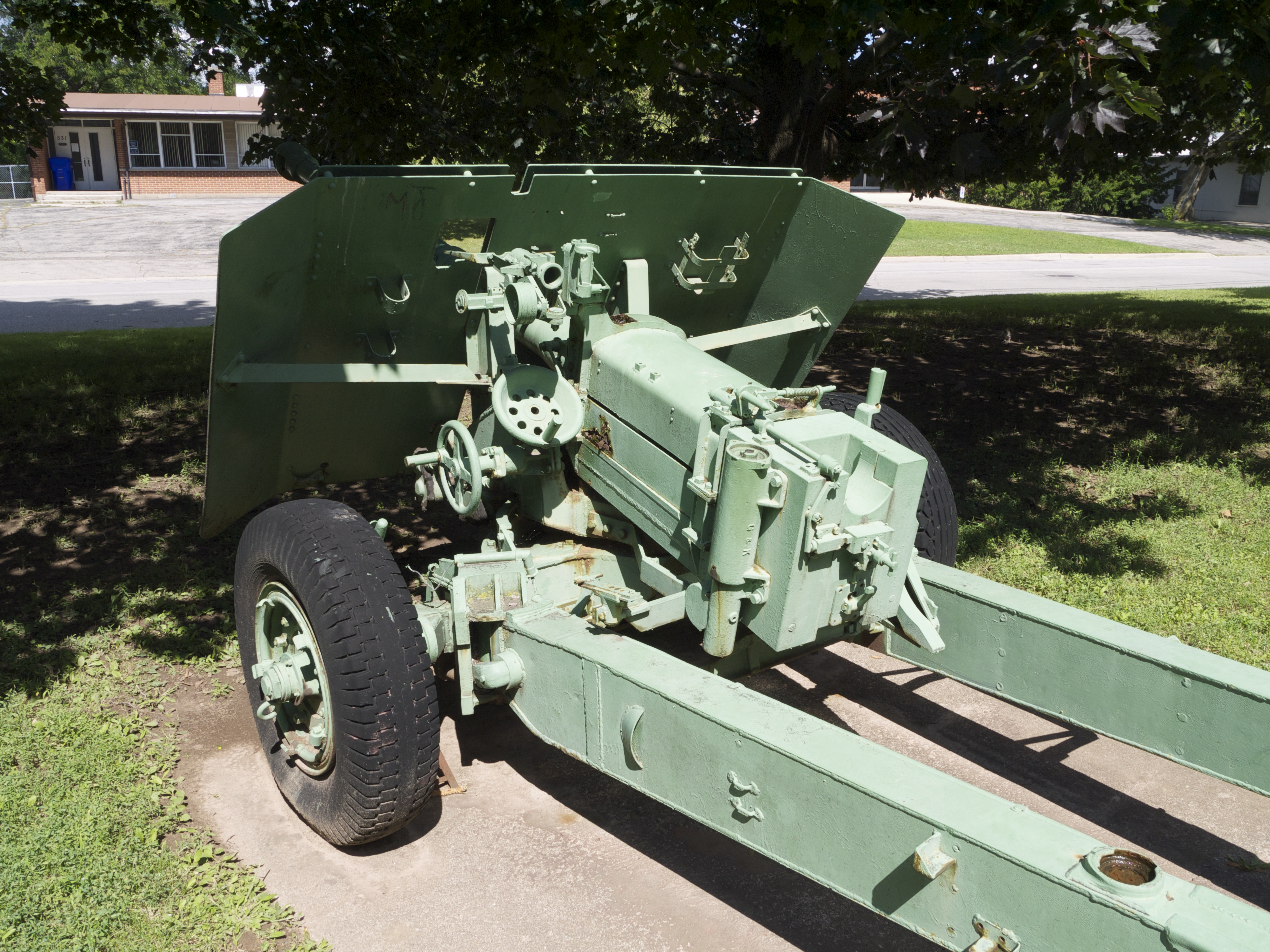 QF 17 pounder anti-tank gun displayed in front of Royal Canadian Legion building in Burlington, Ontario.